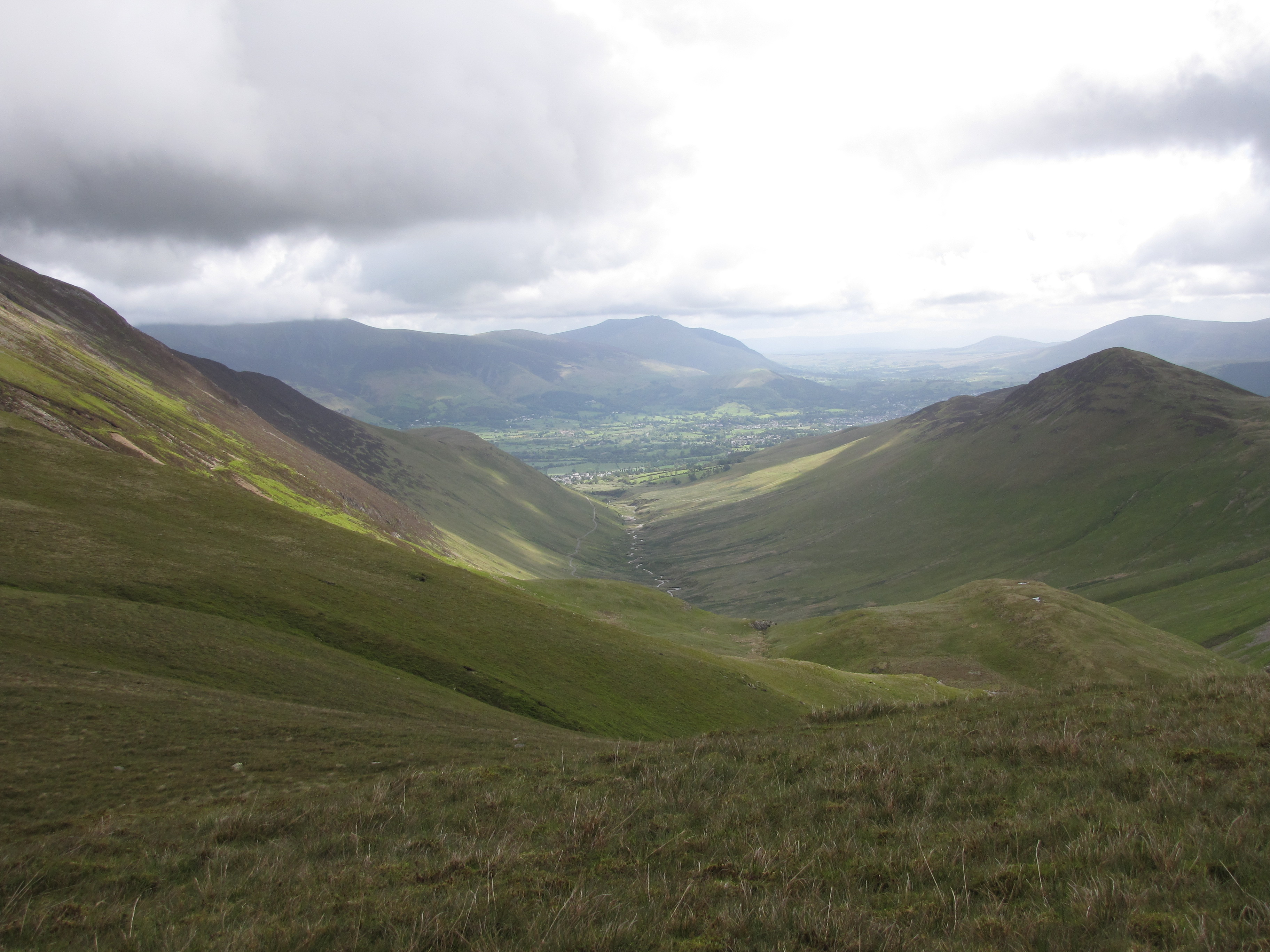 The valley of Coledale seen from Coledale Hause in the English Lake District